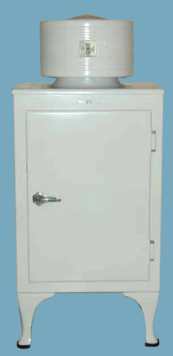 Monitor top style refrigerator.